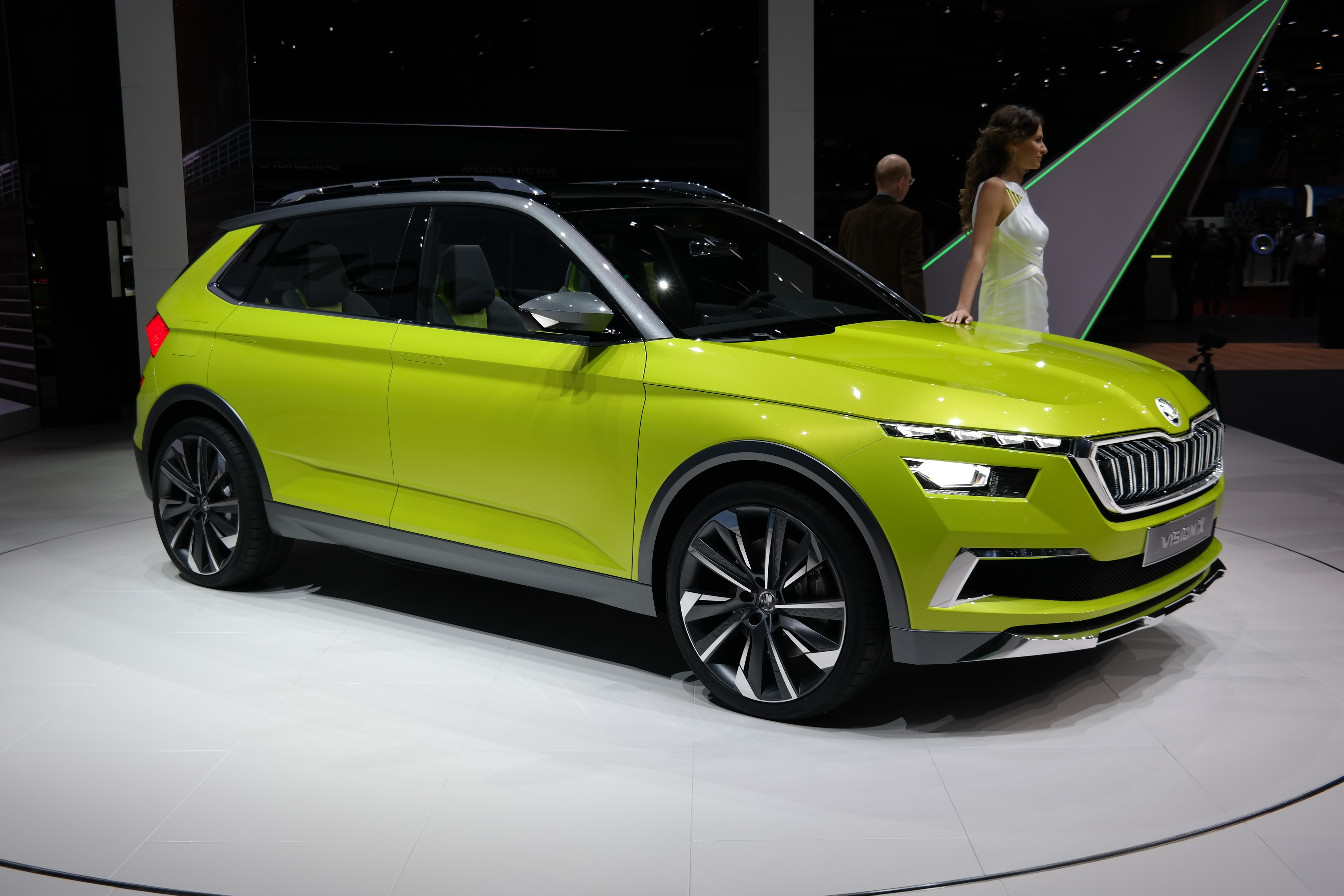 Geneva Motor Show 2018 (photo taken on the first press day)